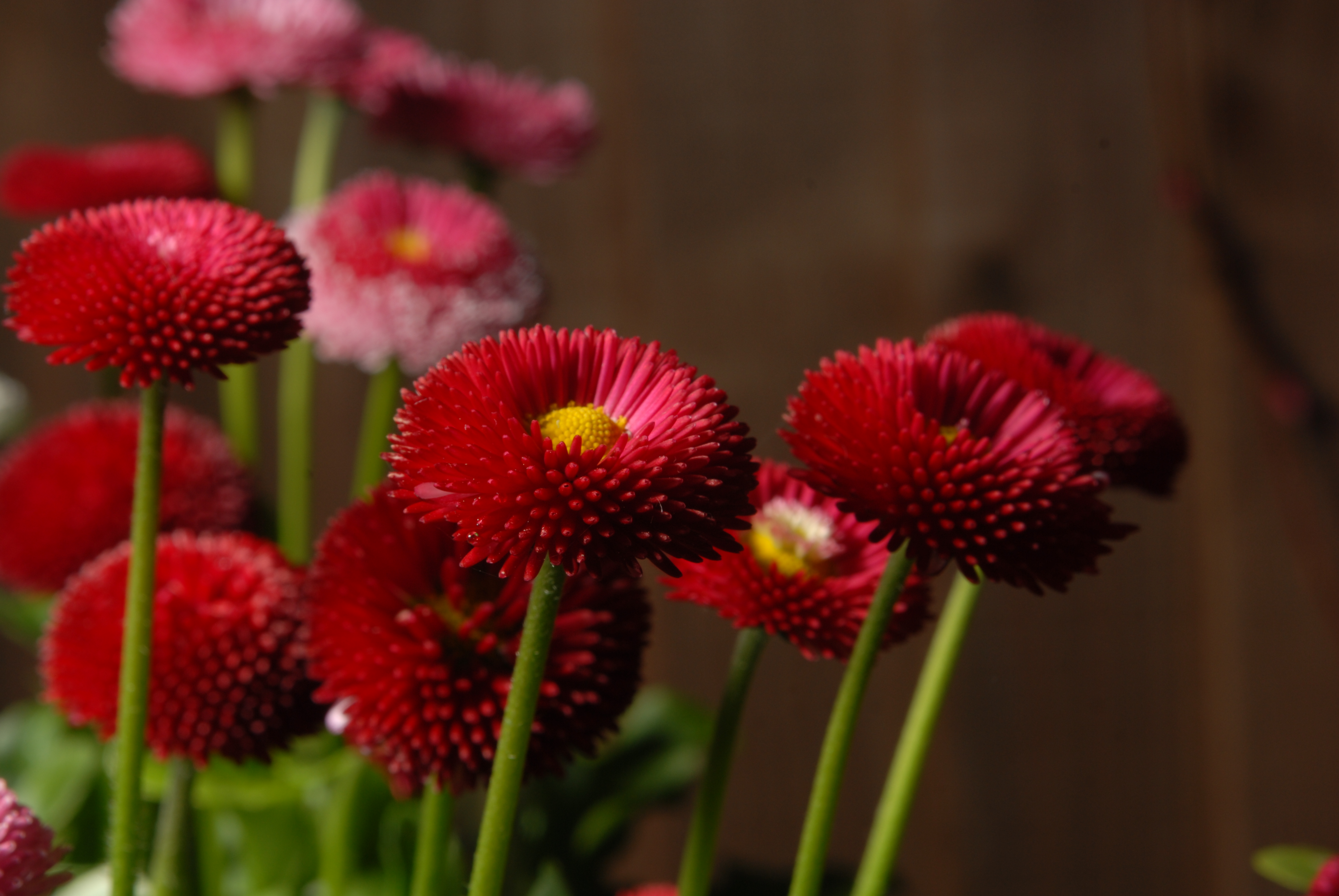 Bellis